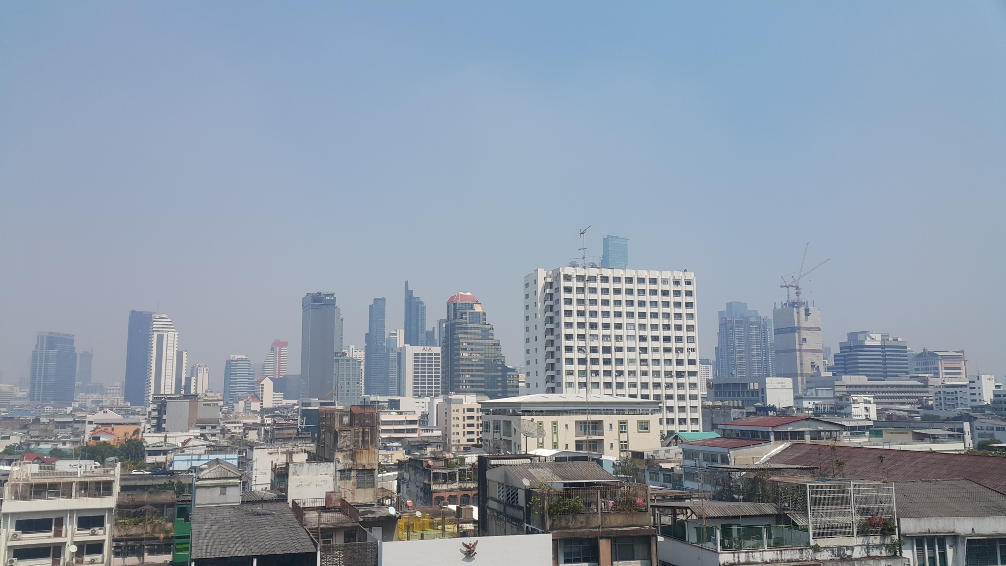 Bangkok with heavy air pollution Picture taken at 13 50 in March from Thailand Creative and Design Centre (TCDC), overlooking the Sathon and Si Lom district